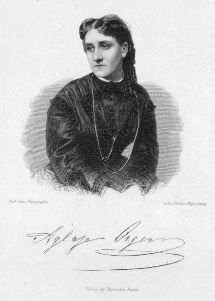 Aglaja Orgeni (1841–1926), a Hungarian operatic coloratura soprano and voice teacher.